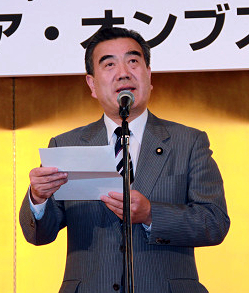 Ryō Shuhama, Parliamentary Secretary for Internal Affairs and Communications, attended the Conference of the Asian Ombudsman Association at the Keio Plaza Hotel in Shinjuku Ward, Tōkyō Metropolis on December 5, 2011. (For terms of use, see 総務省｜当省ホームページについて.)